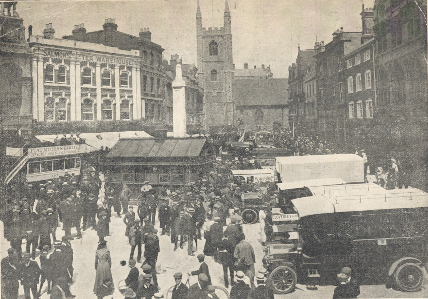 Market Place, Reading, looking northwards to St. Laurence's Church, 17 June 1907. A parade of commercial vehicles in is progress, organised by the Commercial Motor Users' Association. On the west side may be seen the entrance to the Corn Exchange, and Nos. 34 and 33 (J. S. Salmon and Son, tea merchants). The Simeon Obelisk is partly obscured by the cabmen's shelter, and there is a bus on the left, and a row of motor-vans on the right. 1900-1909 : photograph by Walton Adams, from the "Reading Standard, 22 June, 1907.